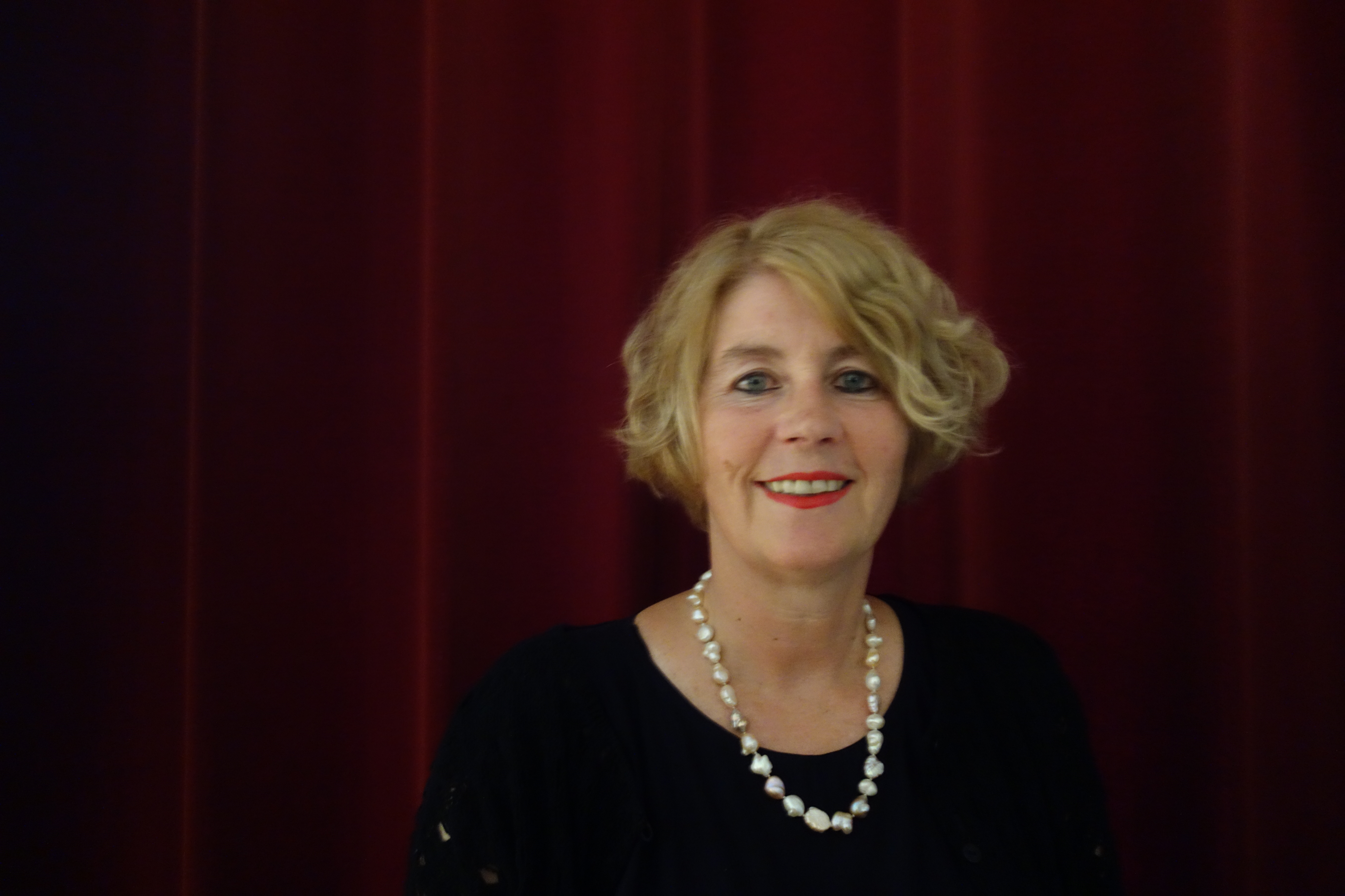 German anthropologist Birgit Meyer (Amsterdam, June 2017)